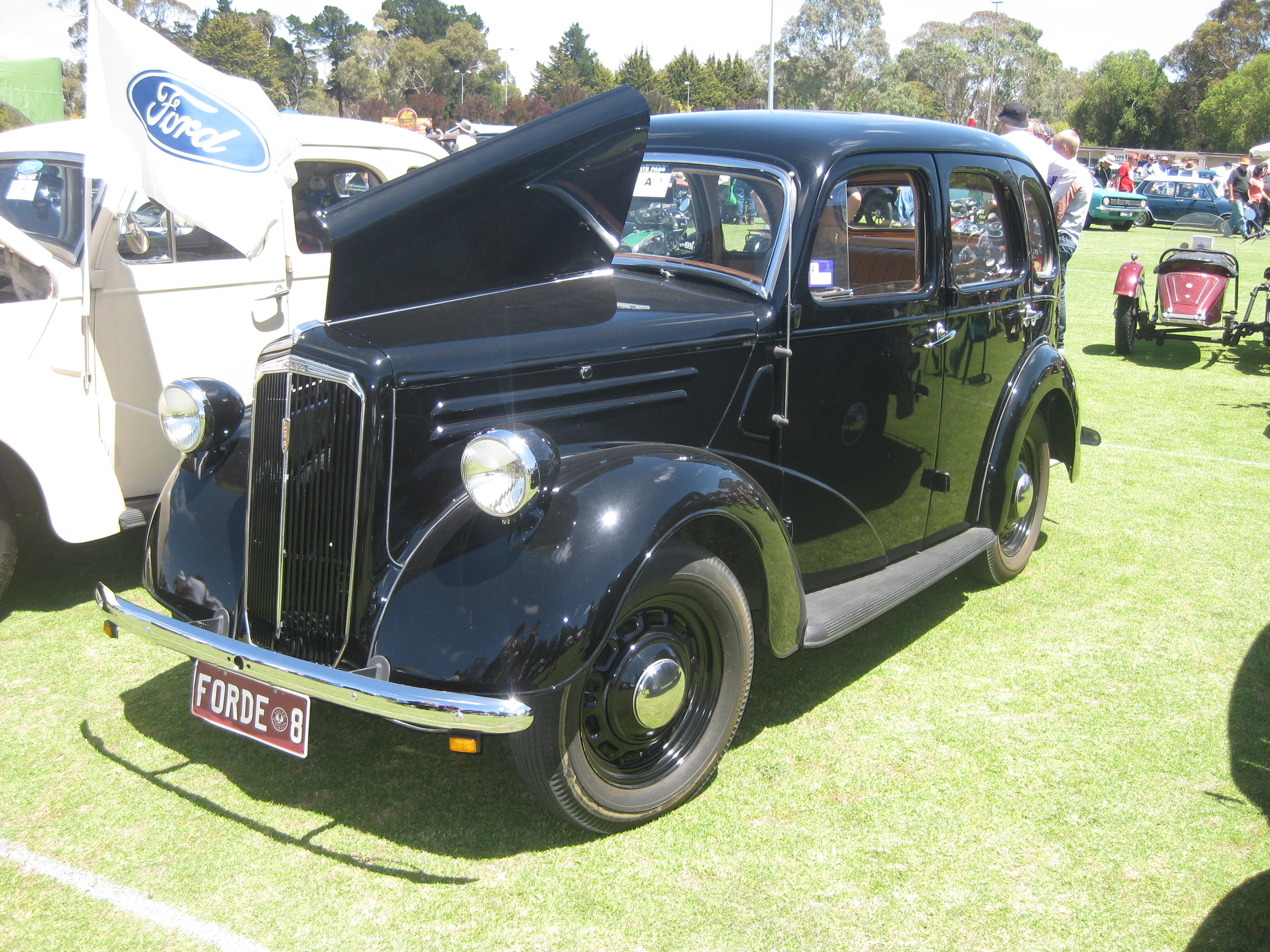 Ford Anglia A54A 4-Door Sedan of 1948